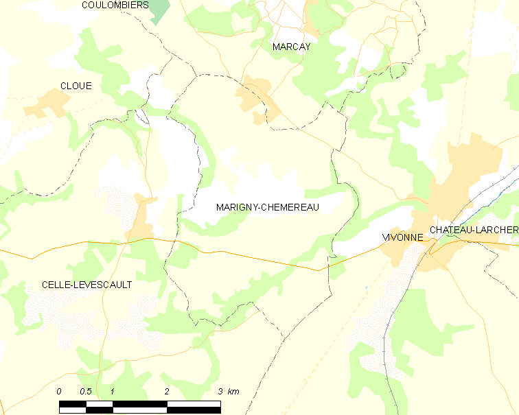 Map of French municipality Marigny-Chemereau